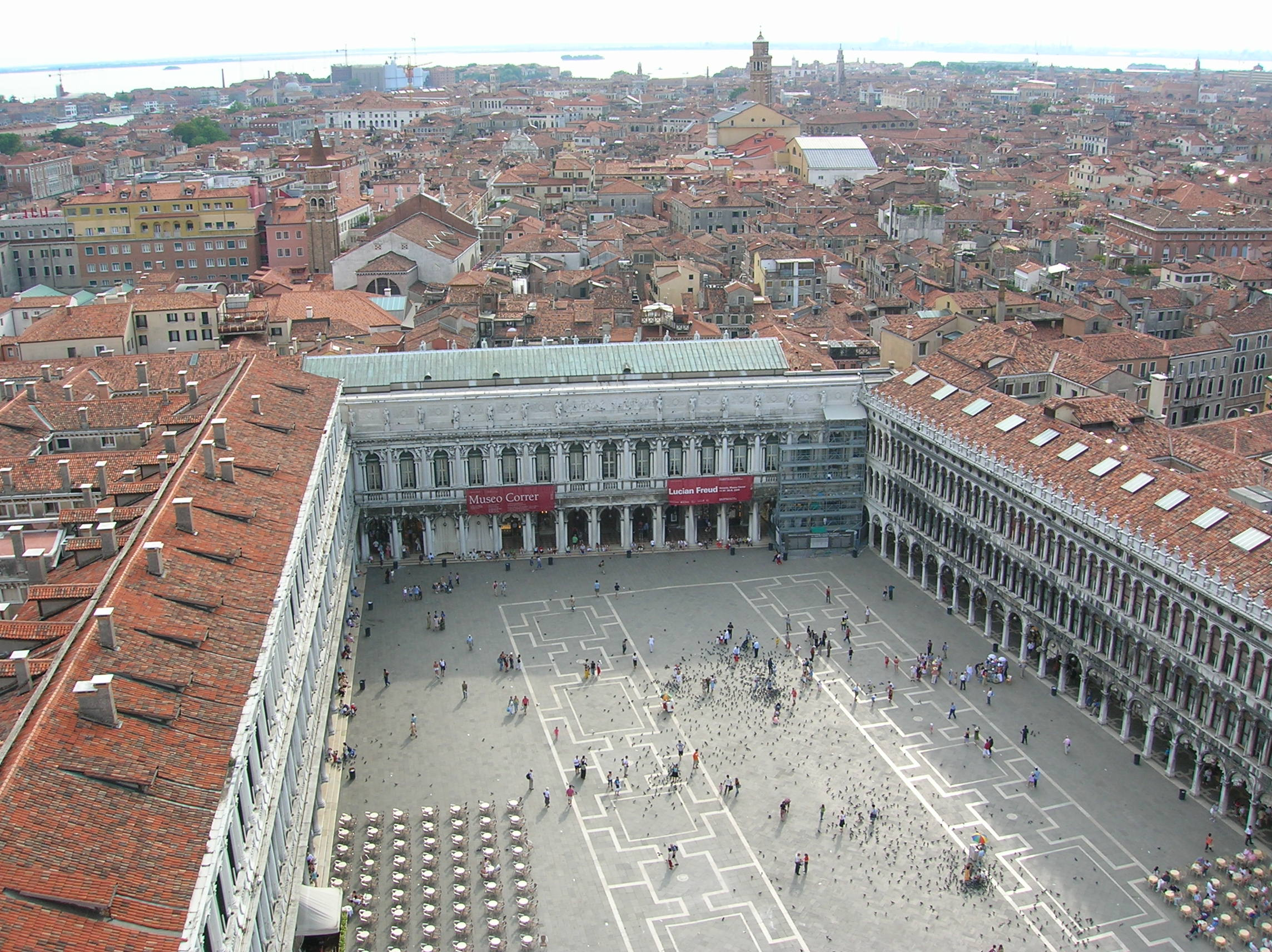 Venice. San Marco